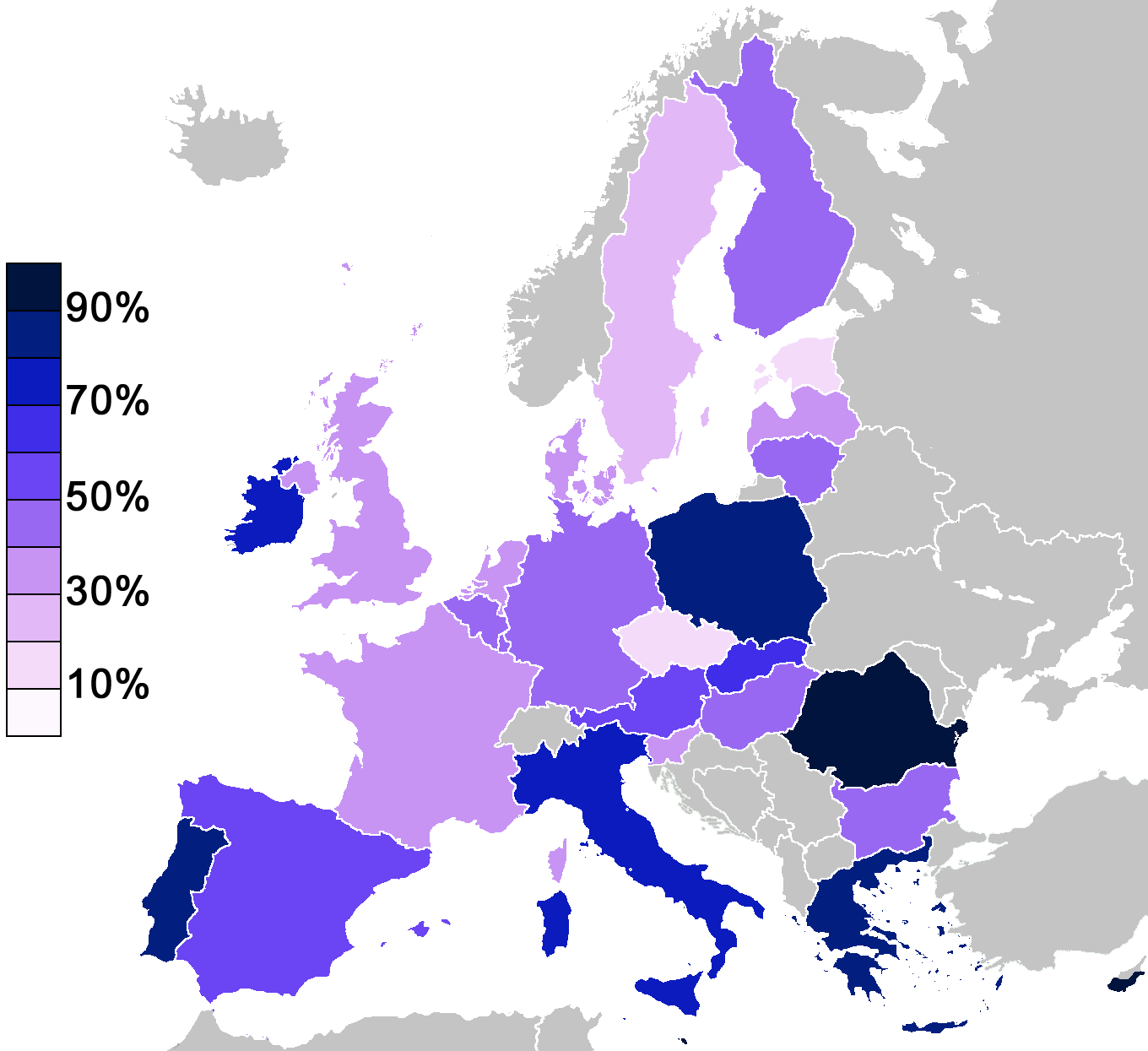 The map shows the results of a Eurobarometer poll conducted in 2005. Available here.